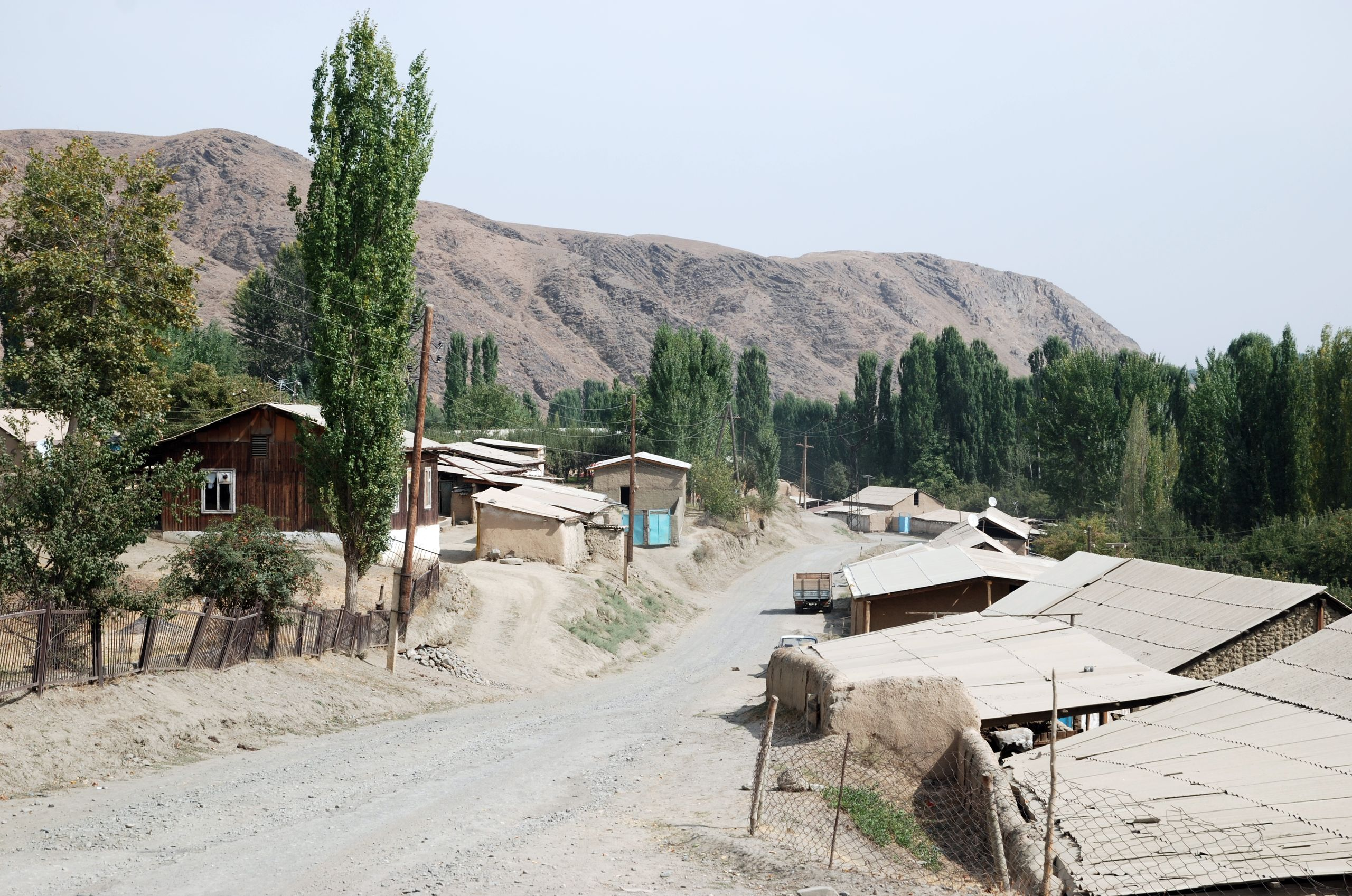 Jarkutan village, Sughd province